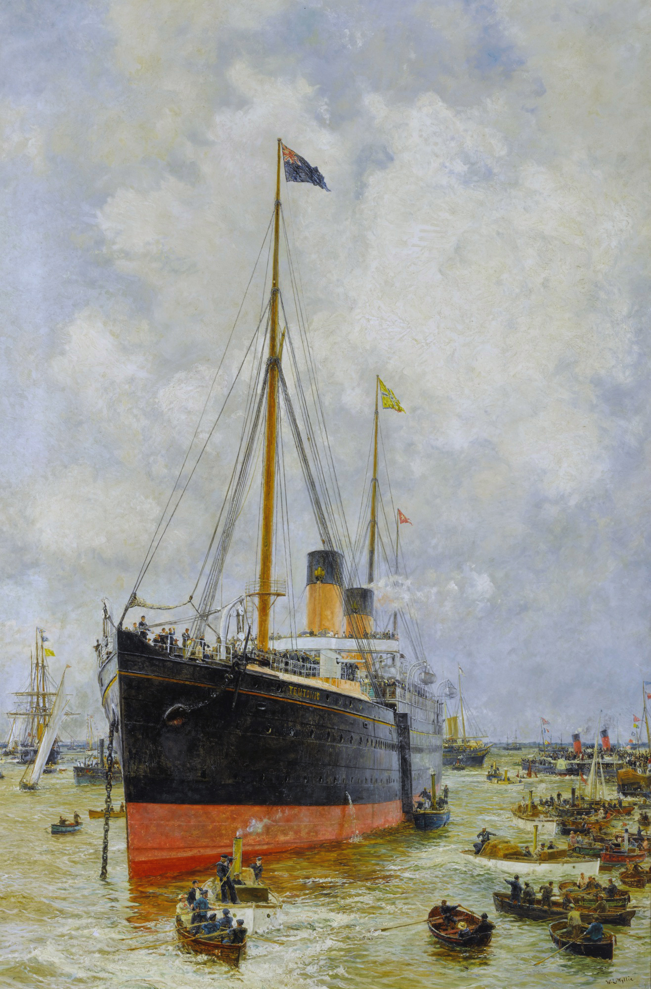 Spithead, 4th August 1889. H.I.M. The Emperor of Germany and H.R.H. The Prince of Wales inspecting the "Teutonic" mercantile armed cruiser, White Star Line oil on canvas 24 x 102 cm signed b.r.: W.L. Wyllie